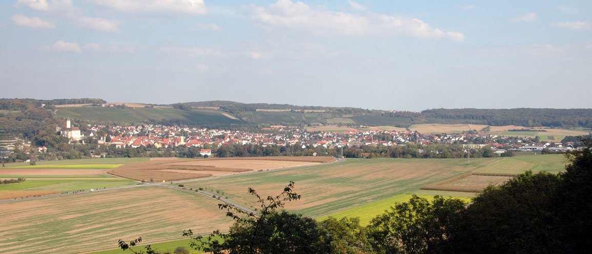 view at Gundelsheim as seen from castle Guttenberg.